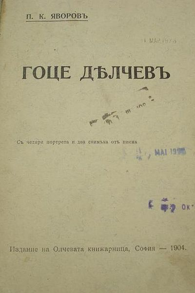 Bulgarian hard covered book – the story of Gotse Delchev (1872- 1903) by Peyo Yavorov (1878-1914).